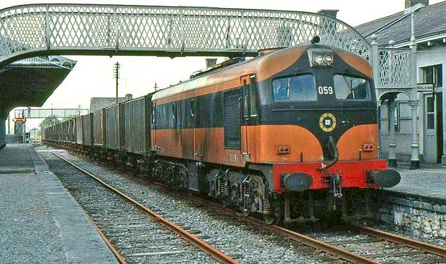 The Asahi liner train (9 of 11)